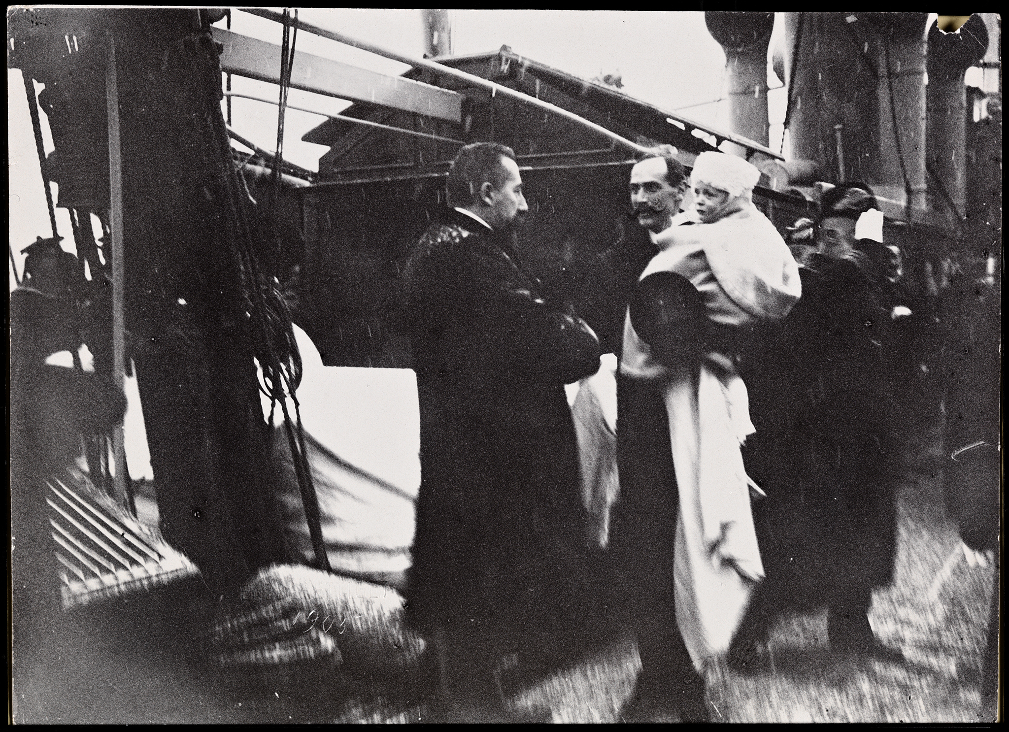 Tittel / Title: Statsminister Christian Michelsen mottar kong Haakon 7 og kronprins Olav ombord det norske marinefartøyet "Heimdal", Dato / Date: 25. november 1905 Fotograf / Photographer: Sted / Place: Oslo Eier / Owner Institution: Nasjonalbiblioteket / National Library of Norway Lenke / Link: Bildesignatur / Image Number: bldsa_FA0232